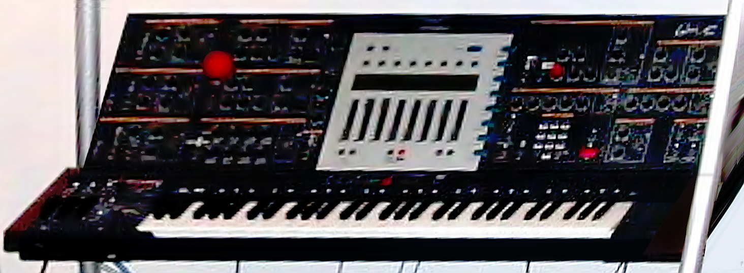 Waldorf WAVE Photo by Till Kopper (ich at tilll-kopper dot de)